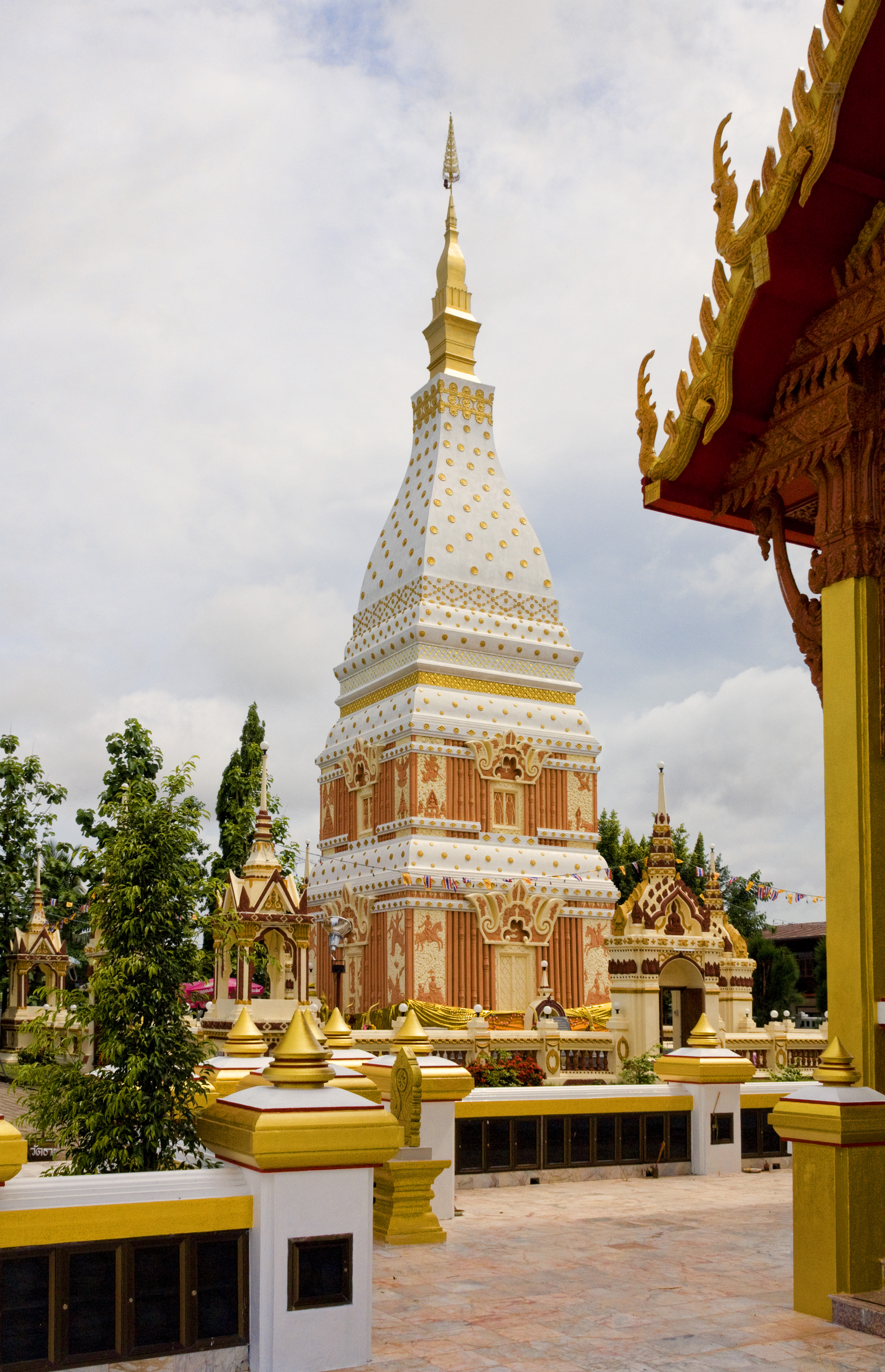 Wat That Renu, Renu Nakhon district, Nakhon Phanom province, norteastern Thailand